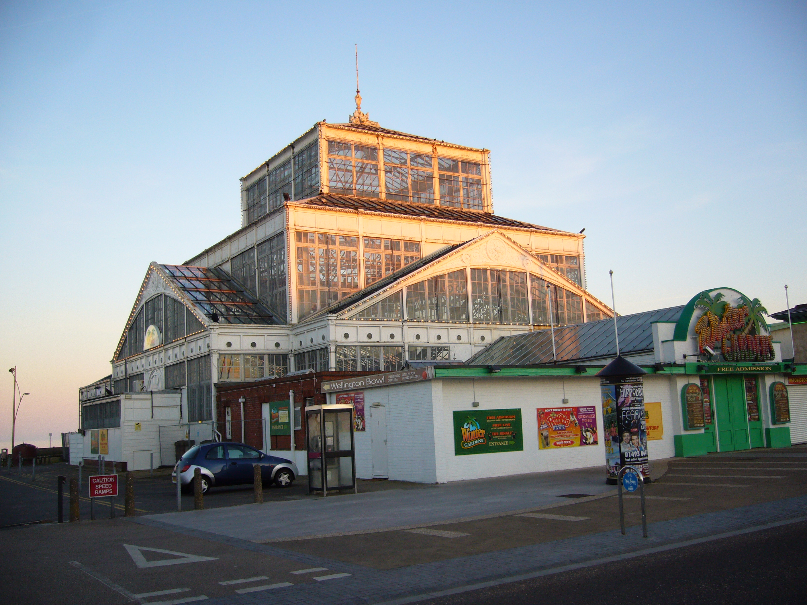 Great Yarmouth